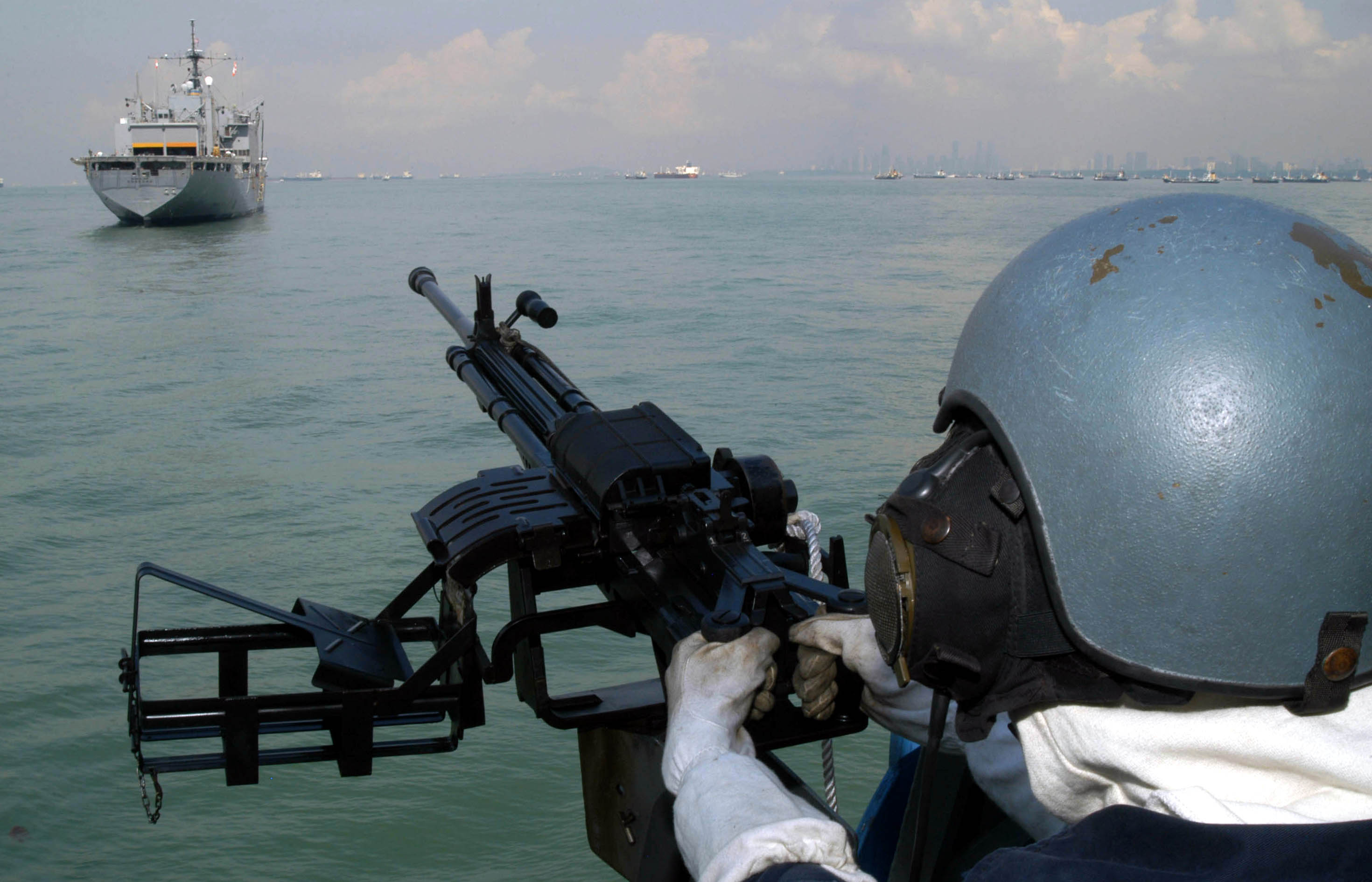 Singapore Coast (May 26, 2004) - A Republic of Singapore Navy (RSN) gunner assigned to the patrol vessel RSS Resilience, keeps his sight trained on the Military Sealift Command (MSC) combat stores ship USNS Concord (T-AFS 5), prior to a boarding of the ship by an RSN boarding team, during exercise Southeast Asia Cooperation Against Terrorism (SEACAT). A scenario driven exercise, SEACAT involved the tracking and boarding of rouge merchant ships, one of which was played by Concord. SEACAT is designed to contribute to regional coordination efforts that support cooperative responses to terrorism and transnational crimes at sea. U.S. Navy photo by Lt. j.g. Adam S. Bashaw (RELEASED)